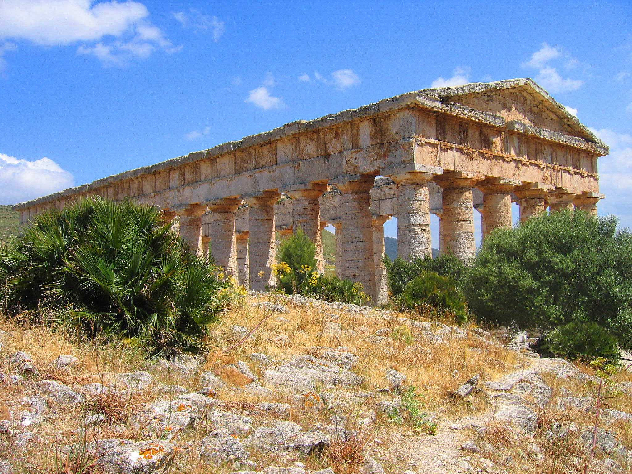 Temple of Segesta (Tempio Greco), Calatafimi-Segesta, Sicily